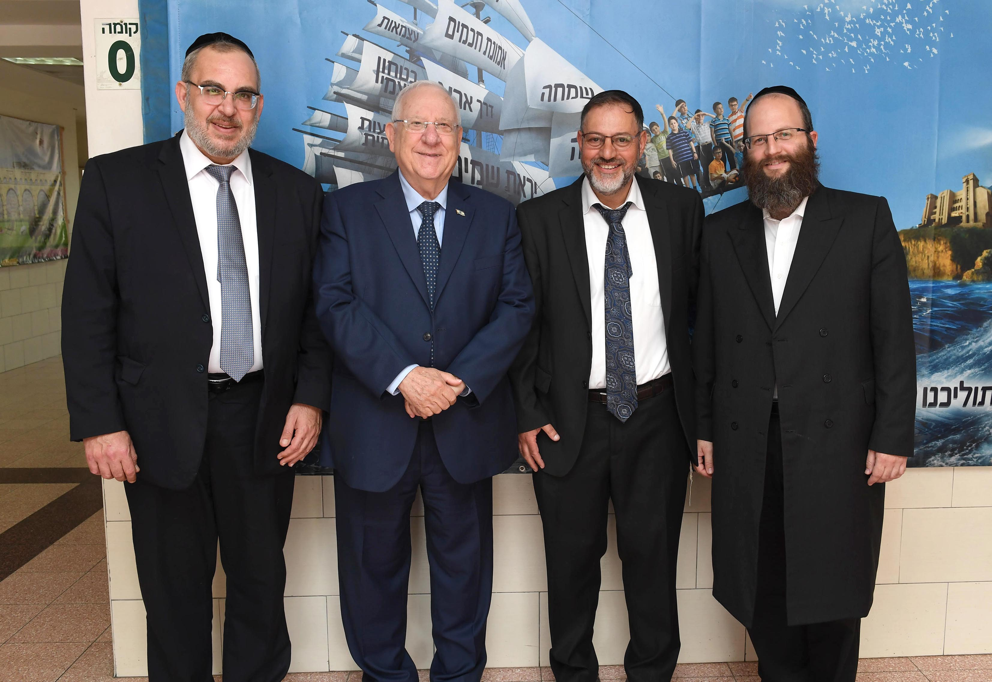 President of the State of Israel, Reuven Rivlin, at the opening of the 19 th academic year in the ultra-Orthodox sector. And during a visit to the "Kupat Ha'Ir" association. Wednesday, August 23, 2017. Photo Credit: Mark Neyman / GPO.